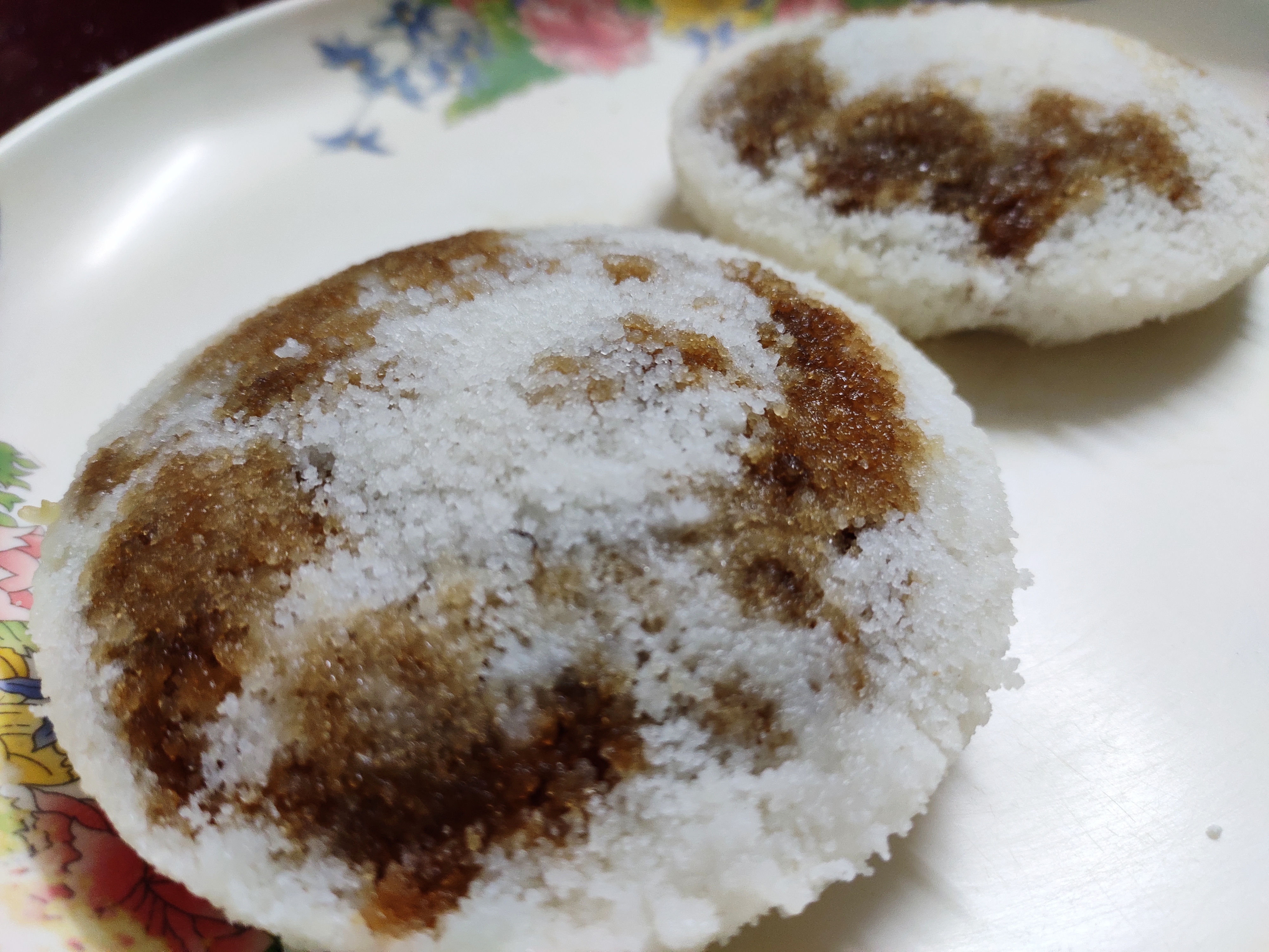 Popular pitha of Bangladesh